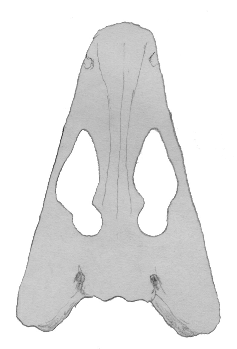 Skull of Megalocephalus, a loxommatid tetrapod